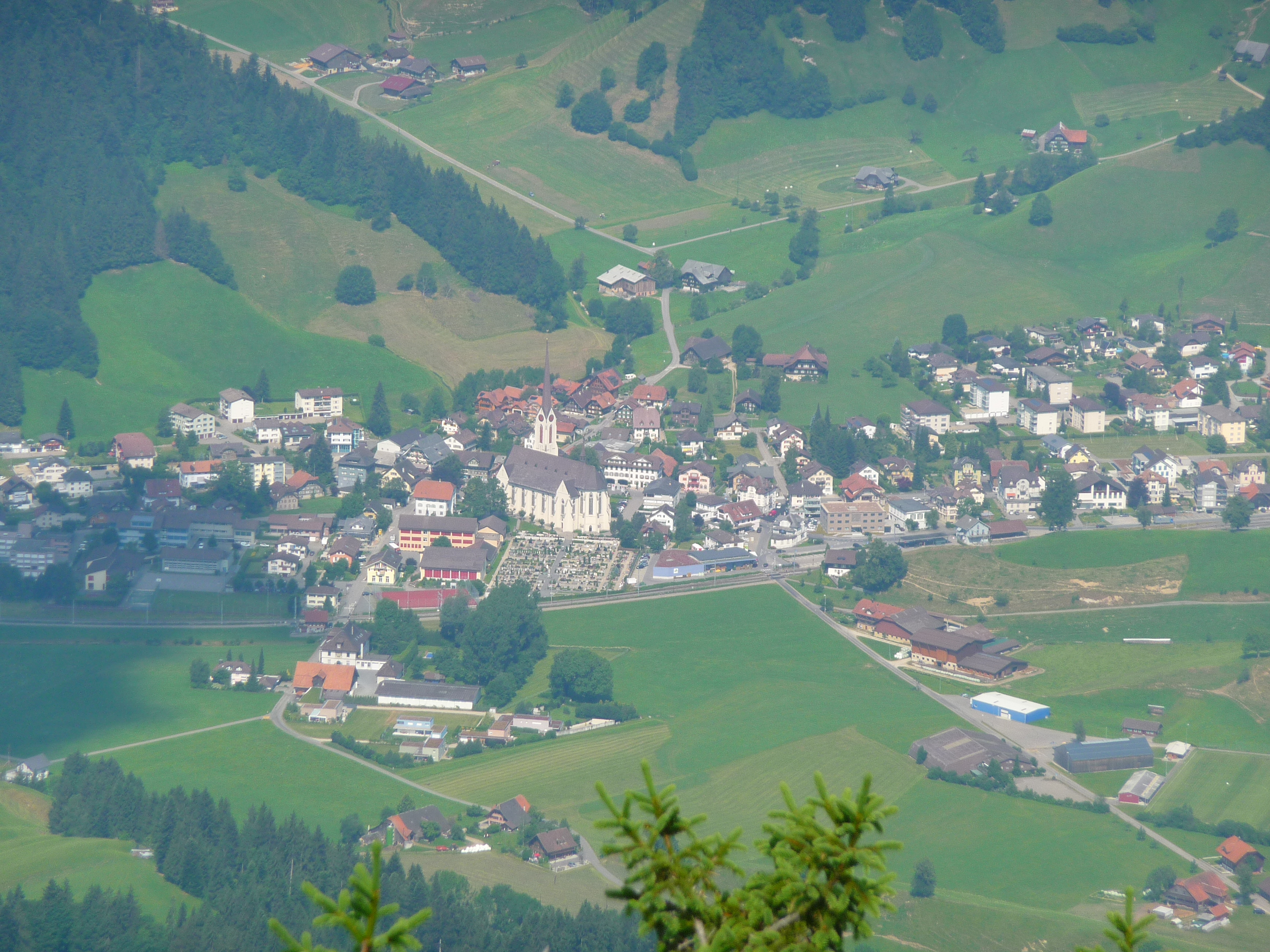 Escholzmatt, view from mountain "Beichlen"